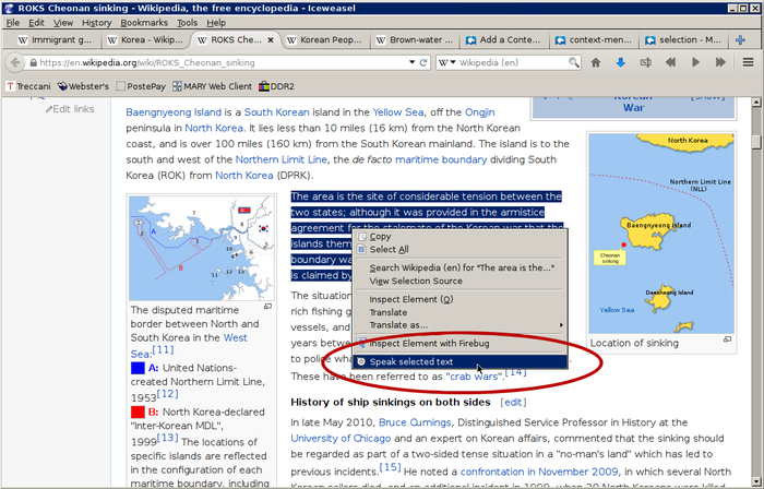 A screenshot showing Automatik Text Reader in action